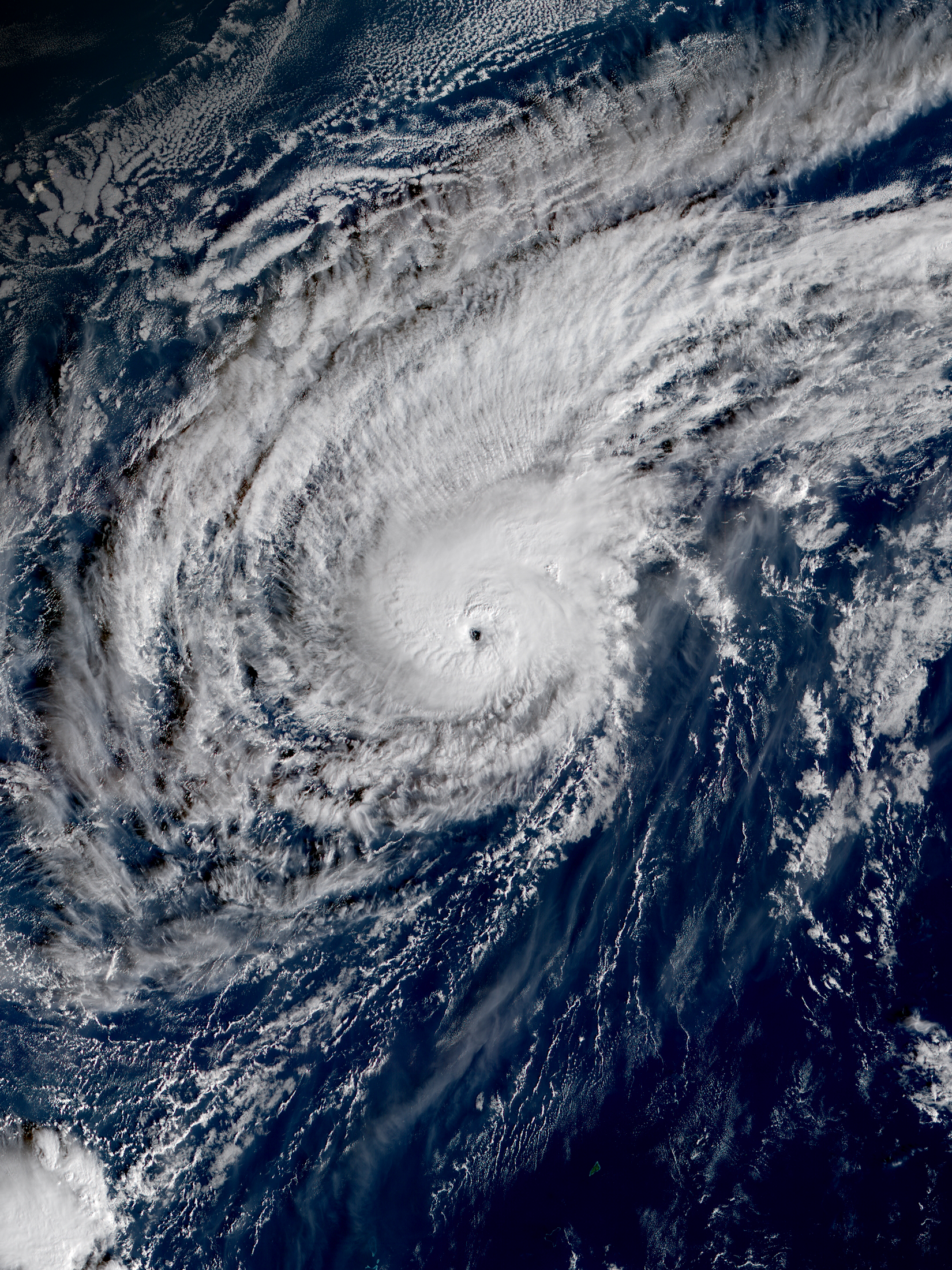 Typhoon Man-yi at peak intensity and located to the south of Okinotorishima late on November 24, 2018.